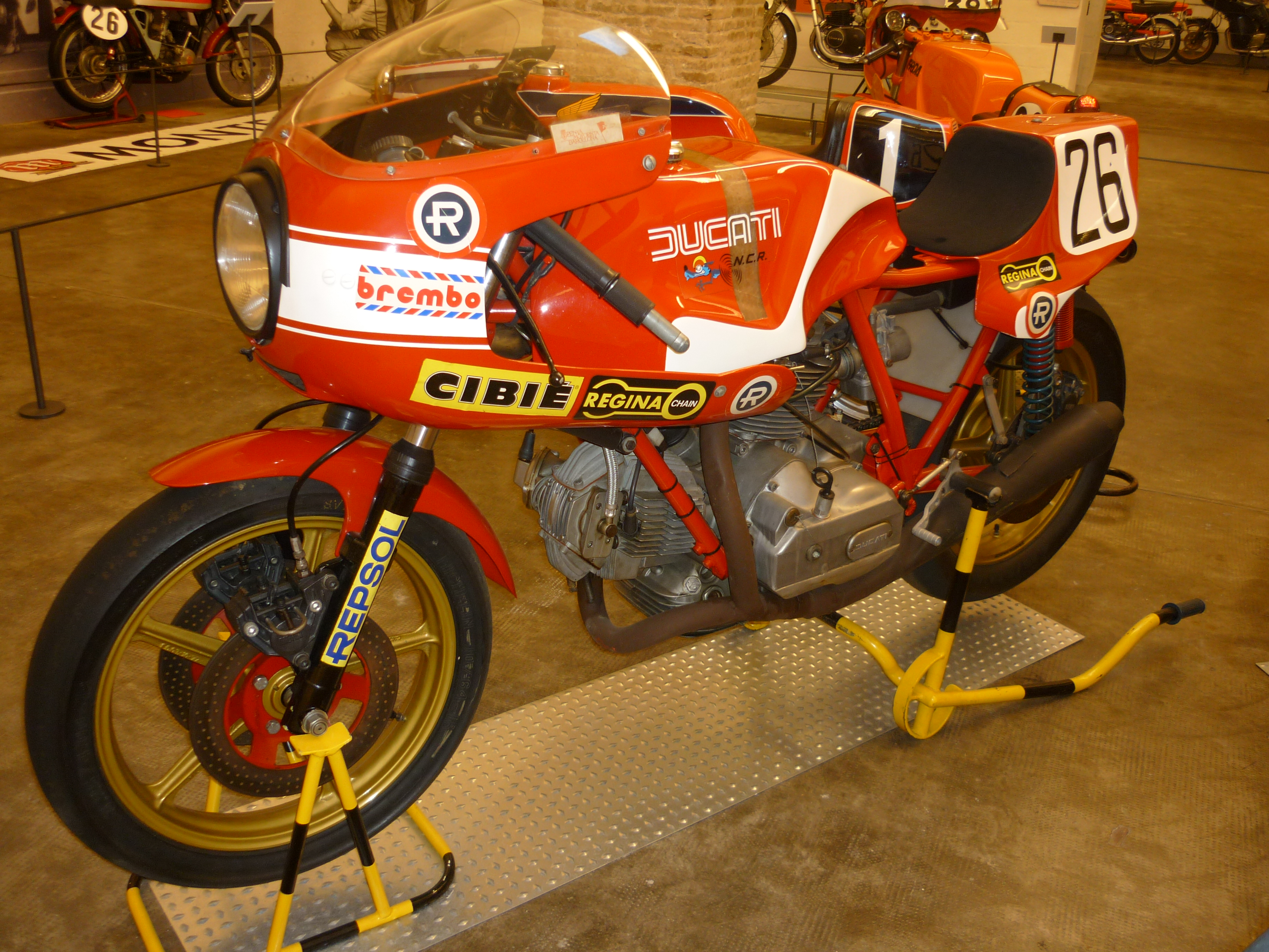 Ducati 900SS 900cc. On this bike, Josep Maria Mallol and Alejandro Tejedo won the XXVI 24 Hours of Montjuïc, on 1980